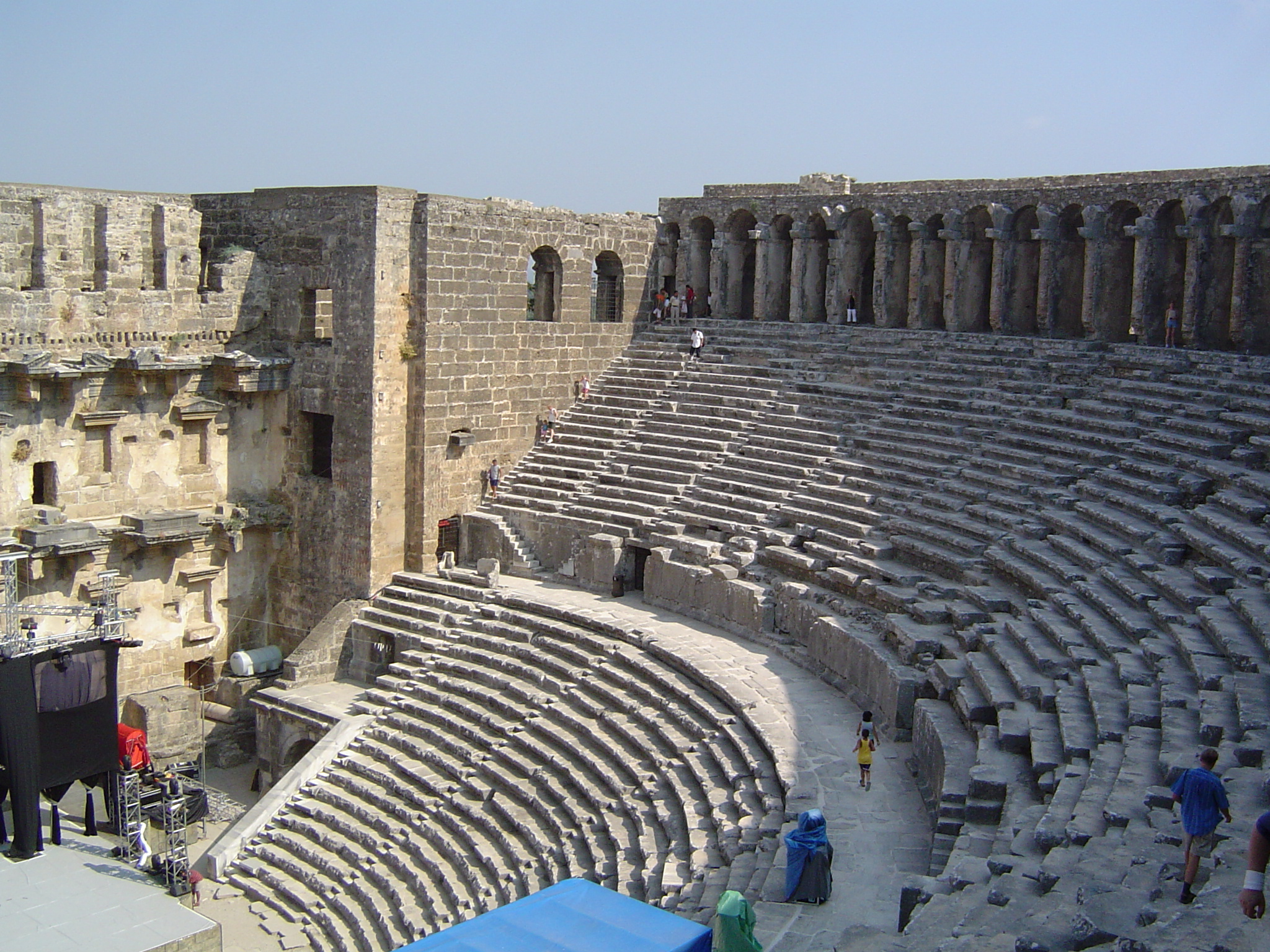 The Ancient Roman theater in Aspendos, Turkey.